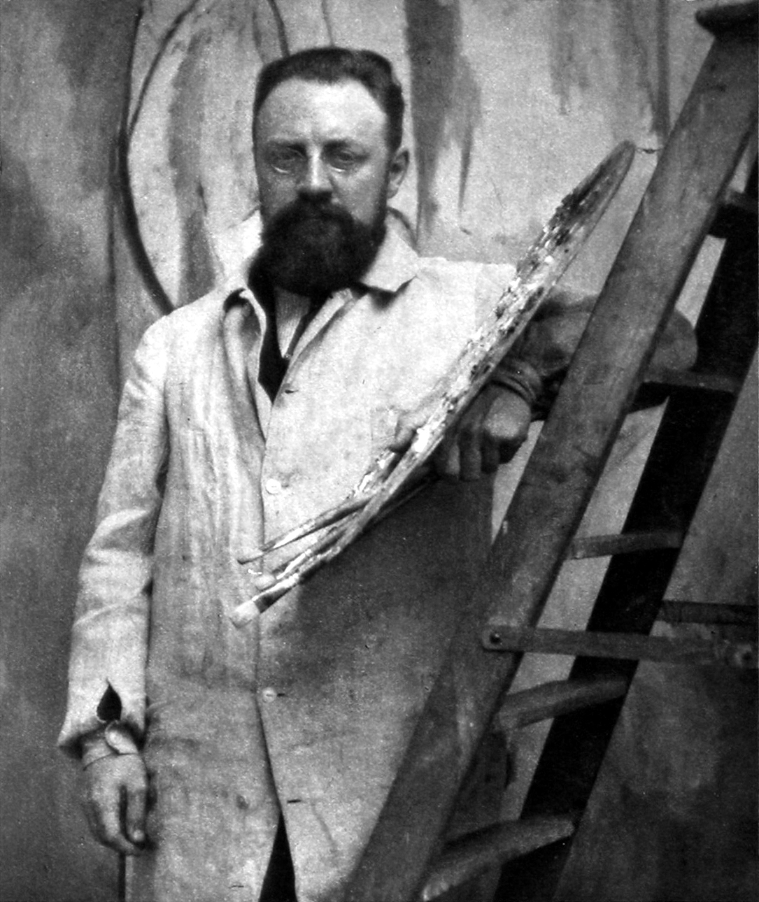 Henri Matisse, Paris, May 13th, 1913. In: Men of mark. (published 1913) Medium: Photogravures